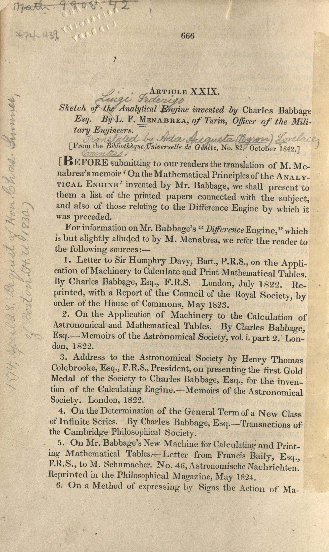 Includes "Article XXIX", translated, with notes, by Ada Lovelace, from Sketch of the analytical engine invented by Charles Babbage, Esq. Published: London: Taylor and Francis, 1843. Scanned from the personal copy owned by Charles Sumner. *AC85.Su662.Zz843m, Houghton Library, Harvard University